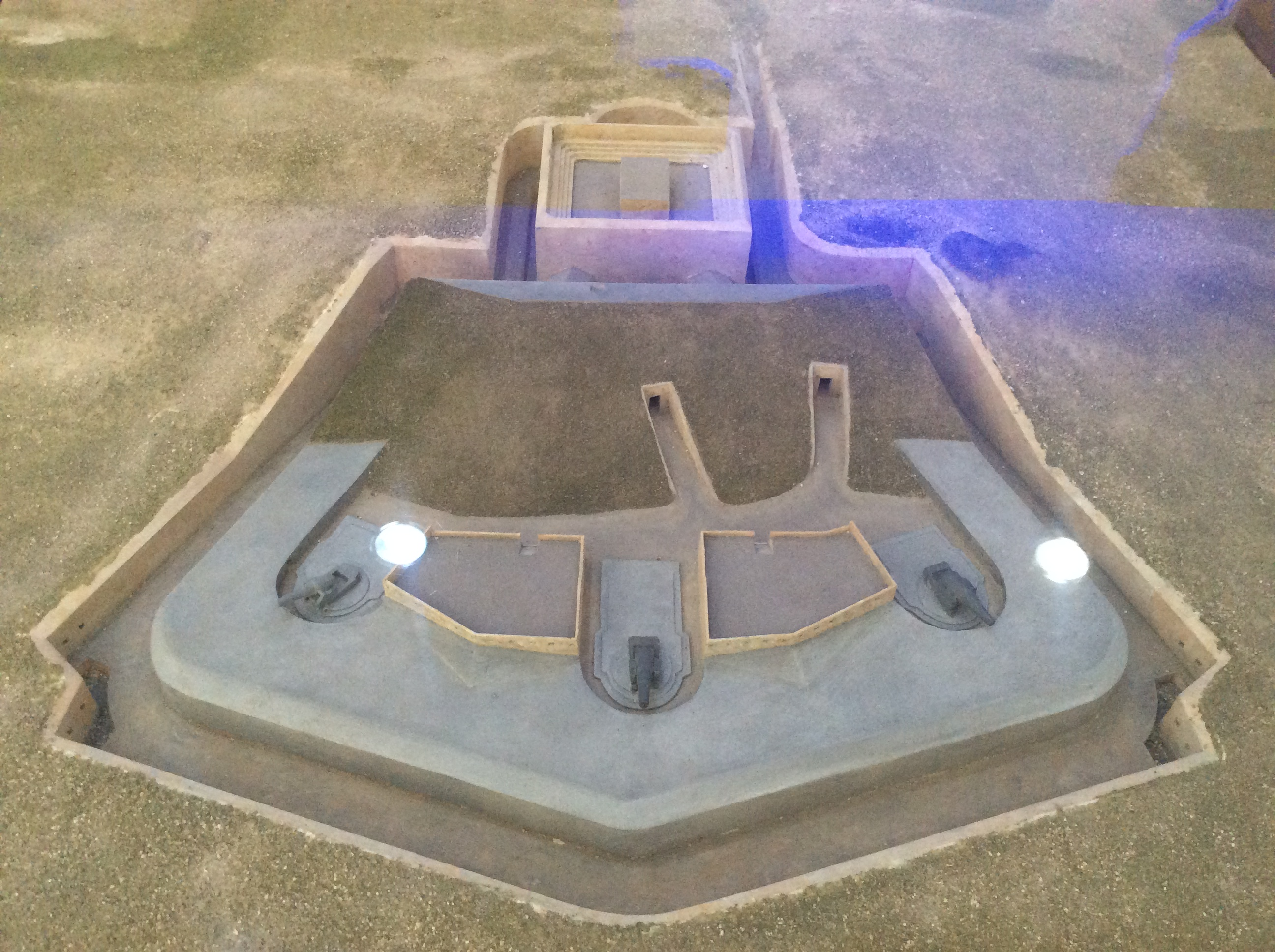 Valletta